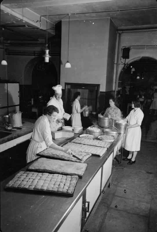 Londoners' Meals Service- Canteen at Fishmongers' Hall, London Bridge, London, 1942 A chef and his team of cooks prepare savoury roll in the large kitchen of the Londoners' Meals Service canteen at Fishmongers' Hall. One cook is cutting the large trays of savoury roll into squares, whilst other hold huge pans of freshly boiled potatoes. The chef has just cut a large square of cheese from a block on the worktop.